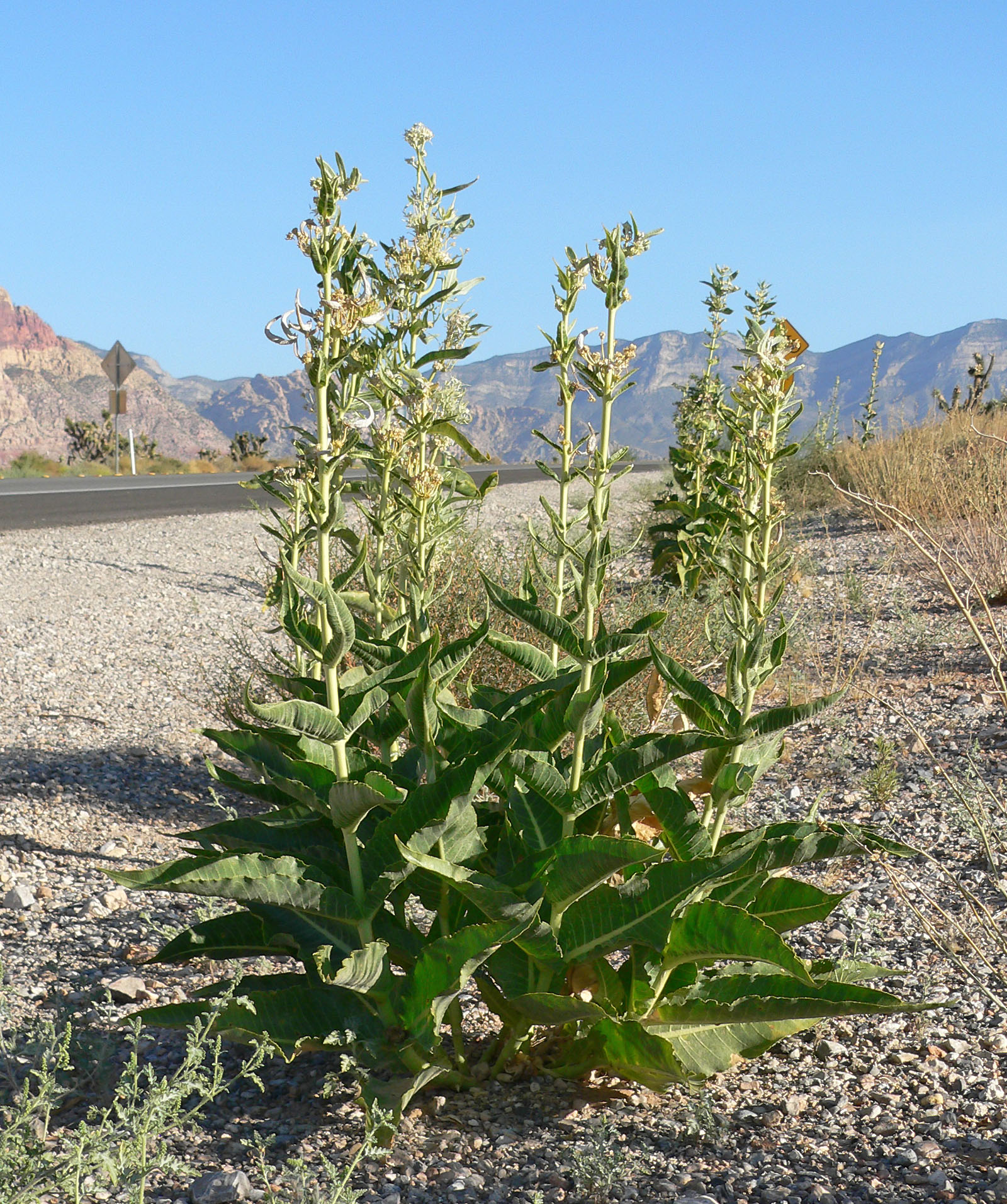 Asclepias erosa alongside the road in Red Rock Canyon, Spring Mountains, southern Nevada (elev. about 1000 m)